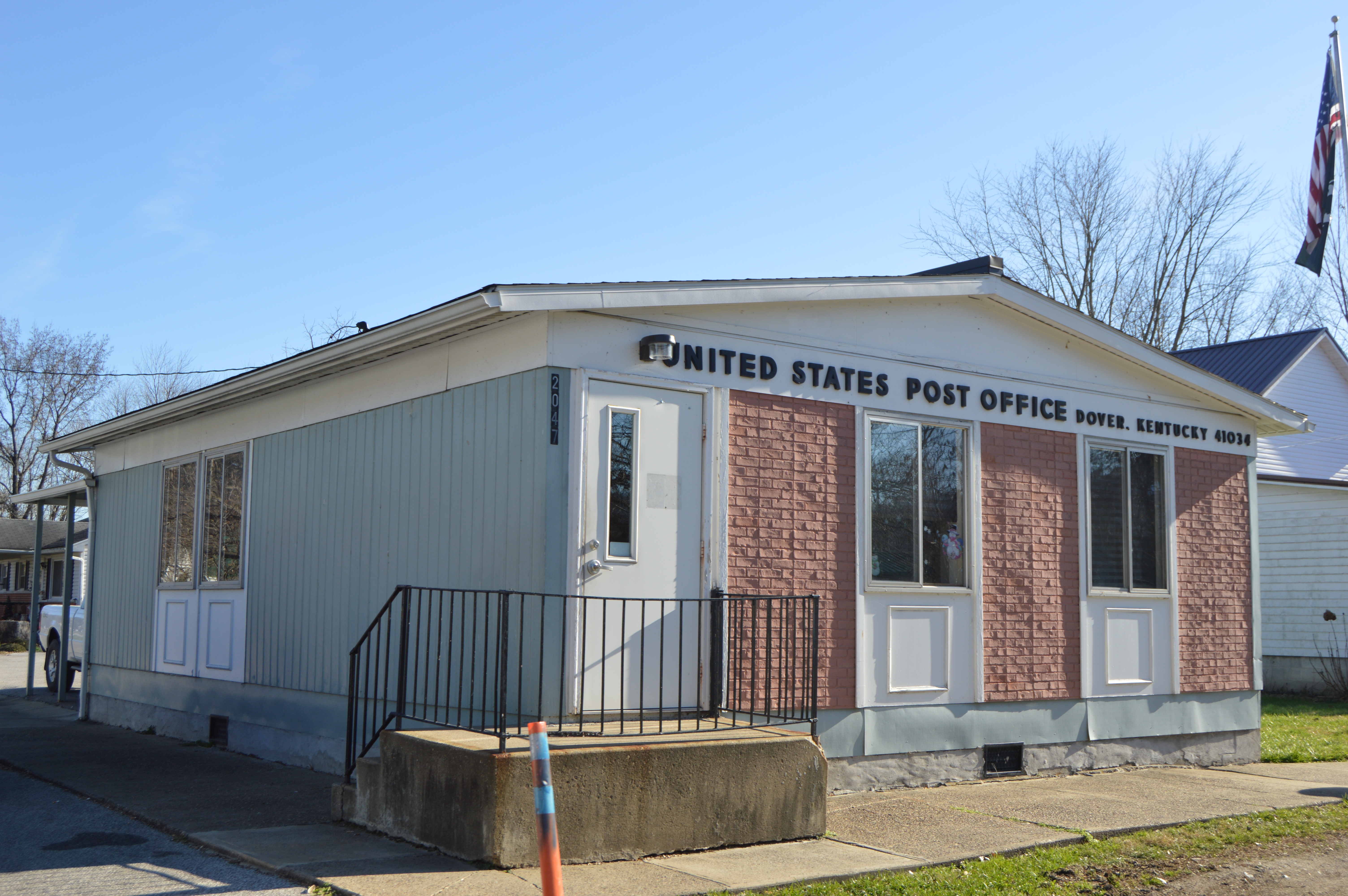 Front and northern side of the Dover post office, located at 2047 Market Street in Dover, Kentucky, United States.